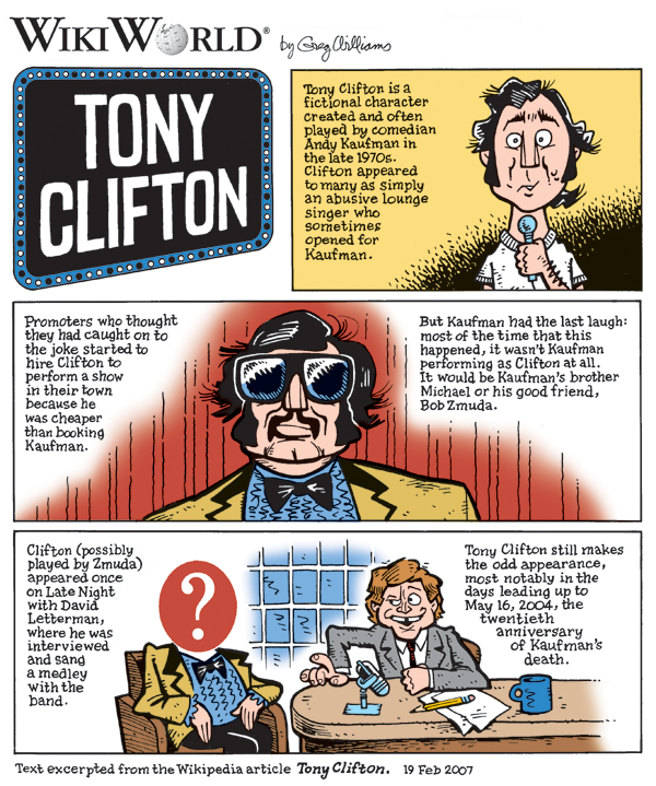 Tony Clifton cartoon